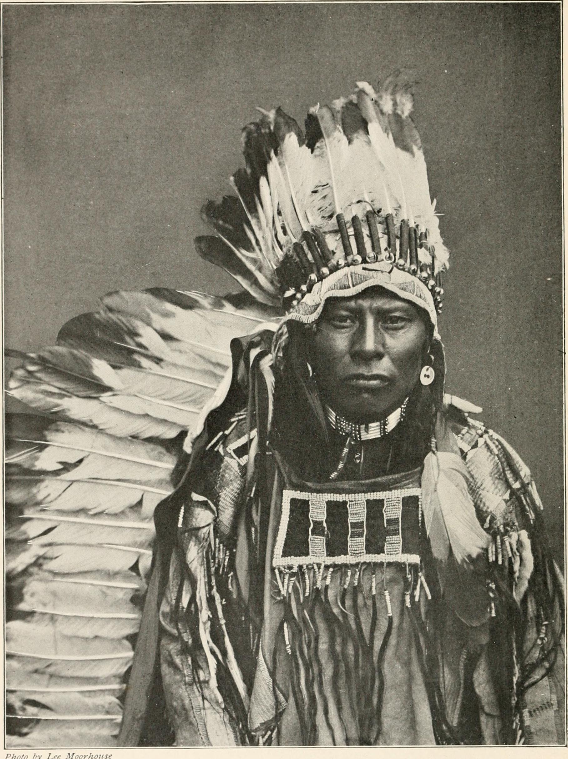 Title: Myths and legends of the Pacific Northwest : especially of Washington and Oregon Year: 1910 (1910s) Authors: Judson, Katharine Berry Subjects: Indians of North America -- Northwest, Pacific Religion Indians of North America -- Northwest, Pacific Publisher: Chicago : A.C. McClurg Text Appearing Before Image: Photo by Lee Moorliouse YAKIMA CHIEFScalp locks are here used as ornaments attached to the beaded yoke Text Appearing After Image: Photo by Lee Moorh PEO, CAYUSE WARRIOR OF THE PACIFIC NORTHWEST Another year passed and again the Thunder sounded.Taking the toddling child by the hand, the motherclimbed the hill, and when the top was reached sheplaced it on the ground and fled. But the boyscrambled up and ran after her, and his frightenedcry stayed her feet. He caught her garments andclung to them, and although the Thunder called, shecould not obey; her vow had been made before sheknew the strength of a mothers love. Gathering theboy within her arms, she hid herself and him fromthe presence of the gods. The storm passed, and themother and child returned to the lodge, but fear hadtaken possession of her; she watched her son witheyes in which terror and love struggled for the mastery. One day as the little one played beside a ripplingbrook, laughing and singing in his glee, suddenly theclouds gathered, the flashing lightning sent beast andbird to cover, and drove the mother out to find herchild. She heard his voice ab